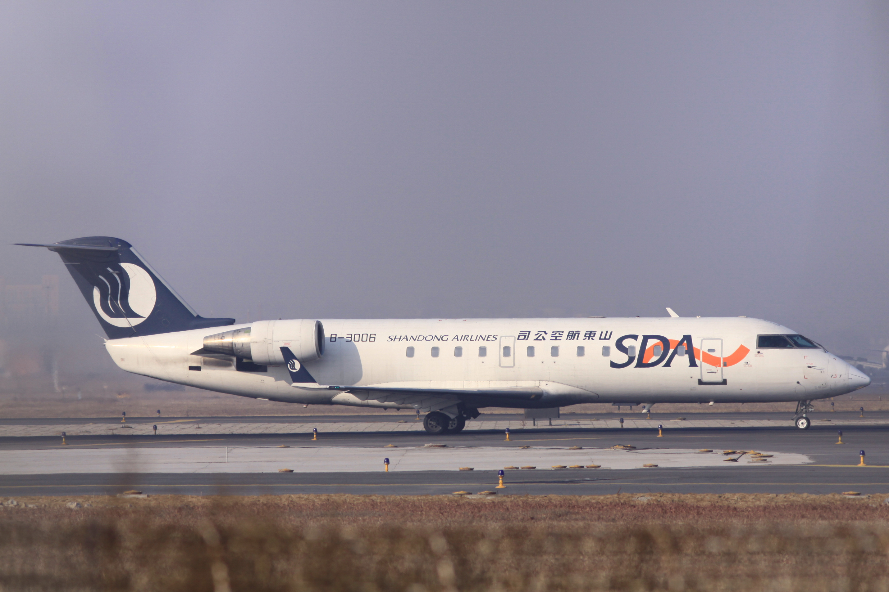 Shandong Airlines CRJ-200LR(B-3006) Line-up Runway 28, Dalian Airport Runway, Canadair CL-600-2B19 Regional Jet CRJ-200ER, c/n:7443, Shandong Airlines